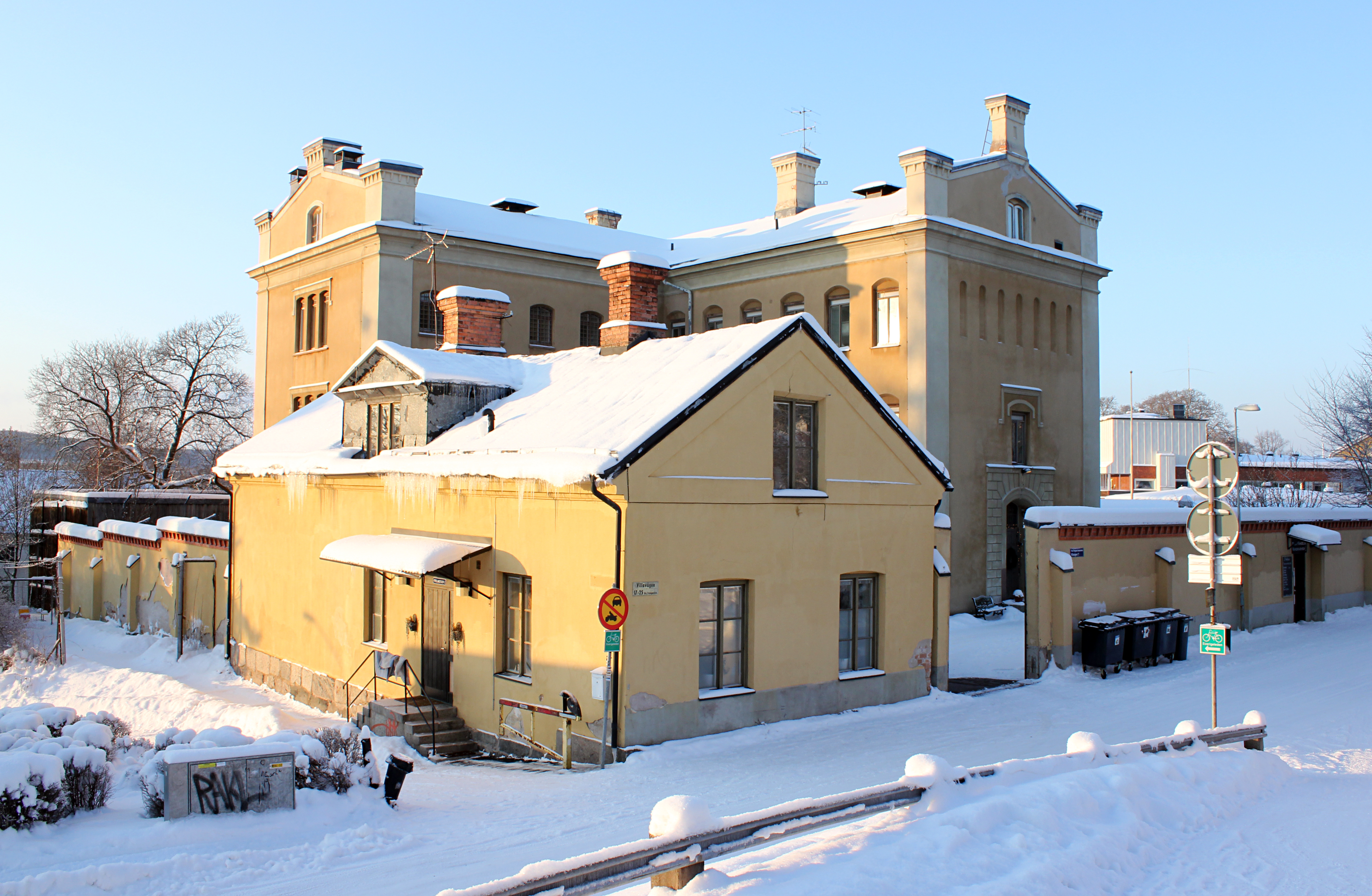 Former prison of Falun, Sweden. Now a hostel.